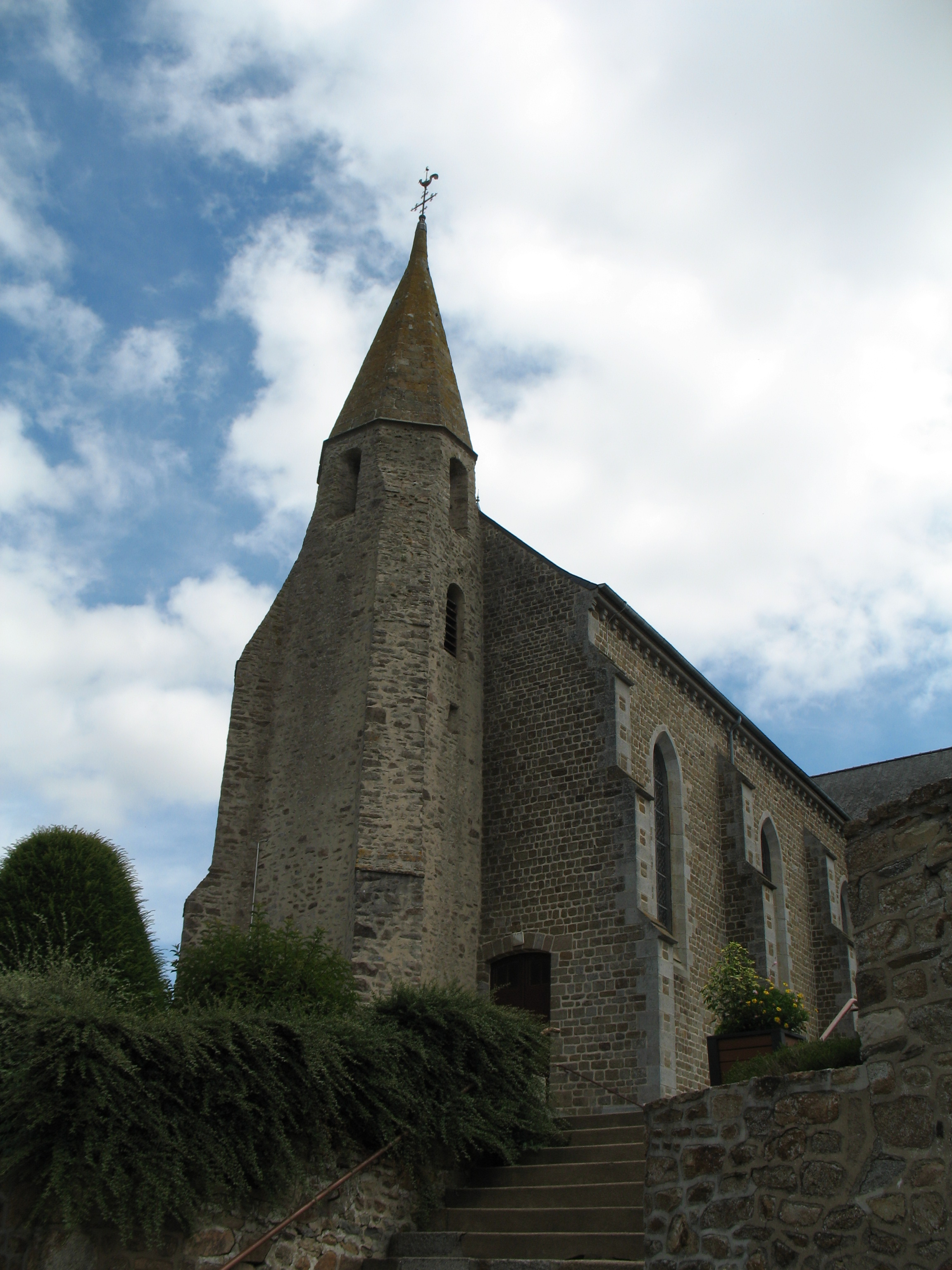 Church of Luitré.